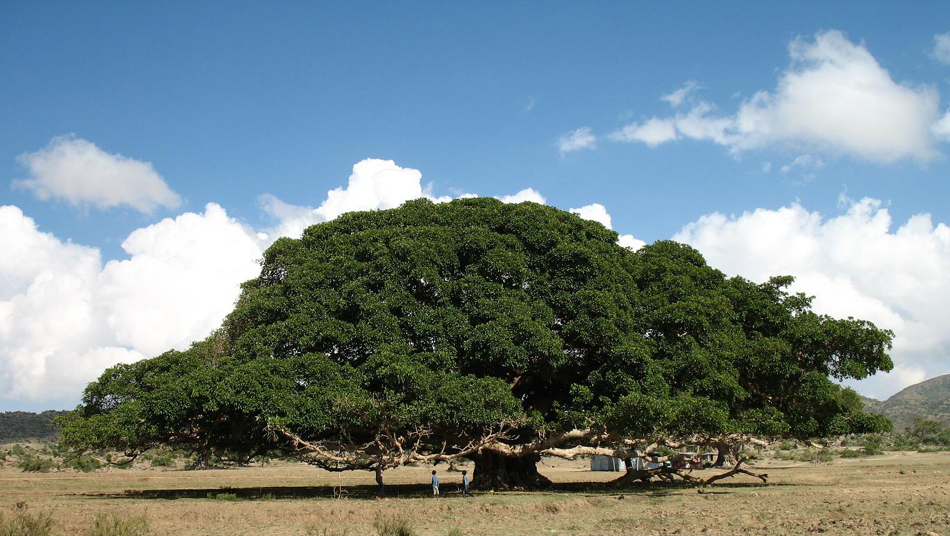 Large old Sycamore Ficus sycomorus near Segeneyti, Eritrea. Illustrated on the Eritrean five Nakfa bank note.